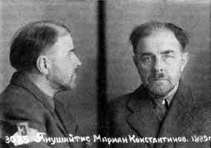 Marian Januszajtis (1889-1973) - General of the Polish Army. Official photo made by NKVD after arrest 1939